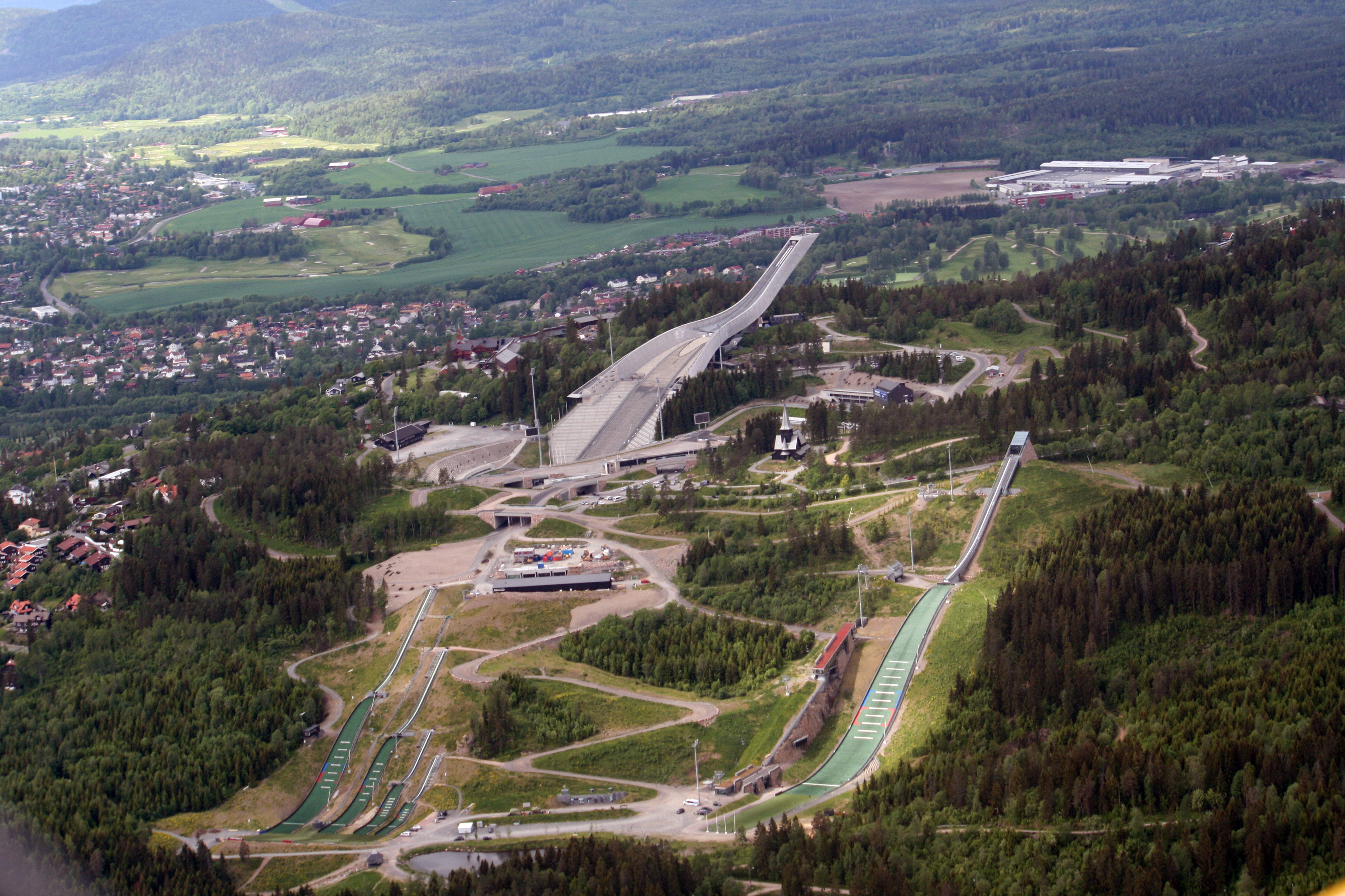 Aerial photograph from June 14th, 2015.